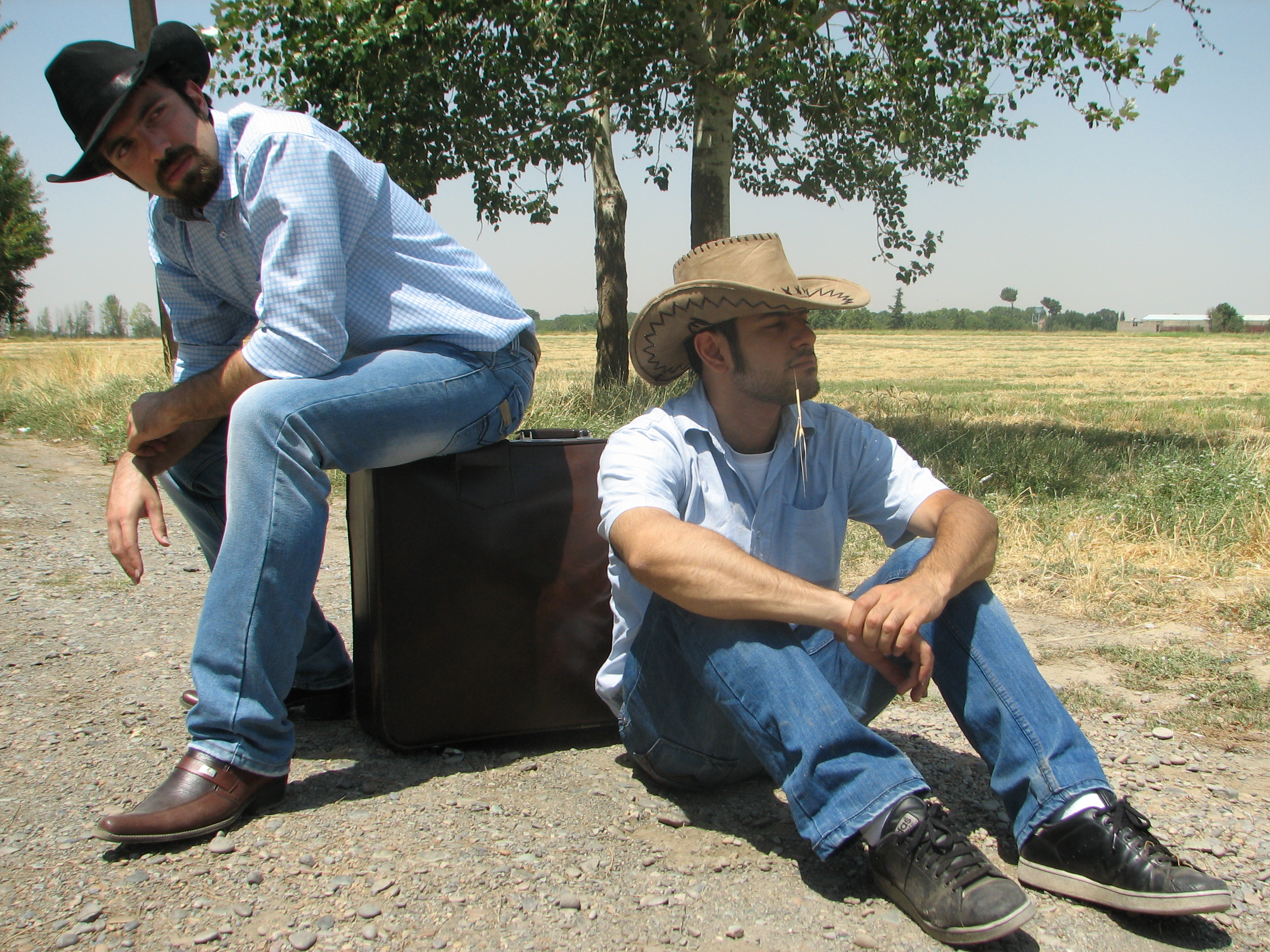 Dream Rovers band members in one of their photo shooting sessions in Karaj, Iran for the art cover of their debut album, Off the Road. Left: Erfan Rezayatbakhsh (elf) the founder, singer and songwriter of the band. Right: Ahmad Motevasel the lead guitarist and recording engineer of the band.